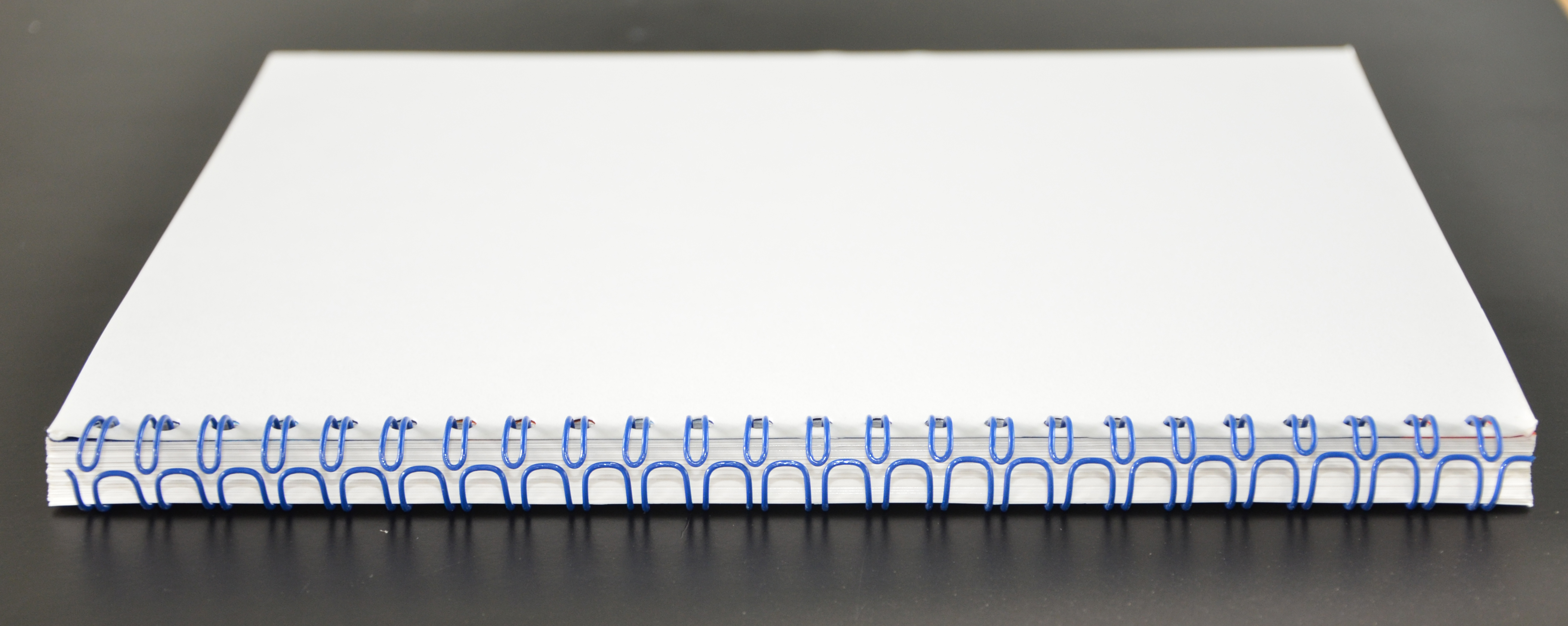 Wire-O